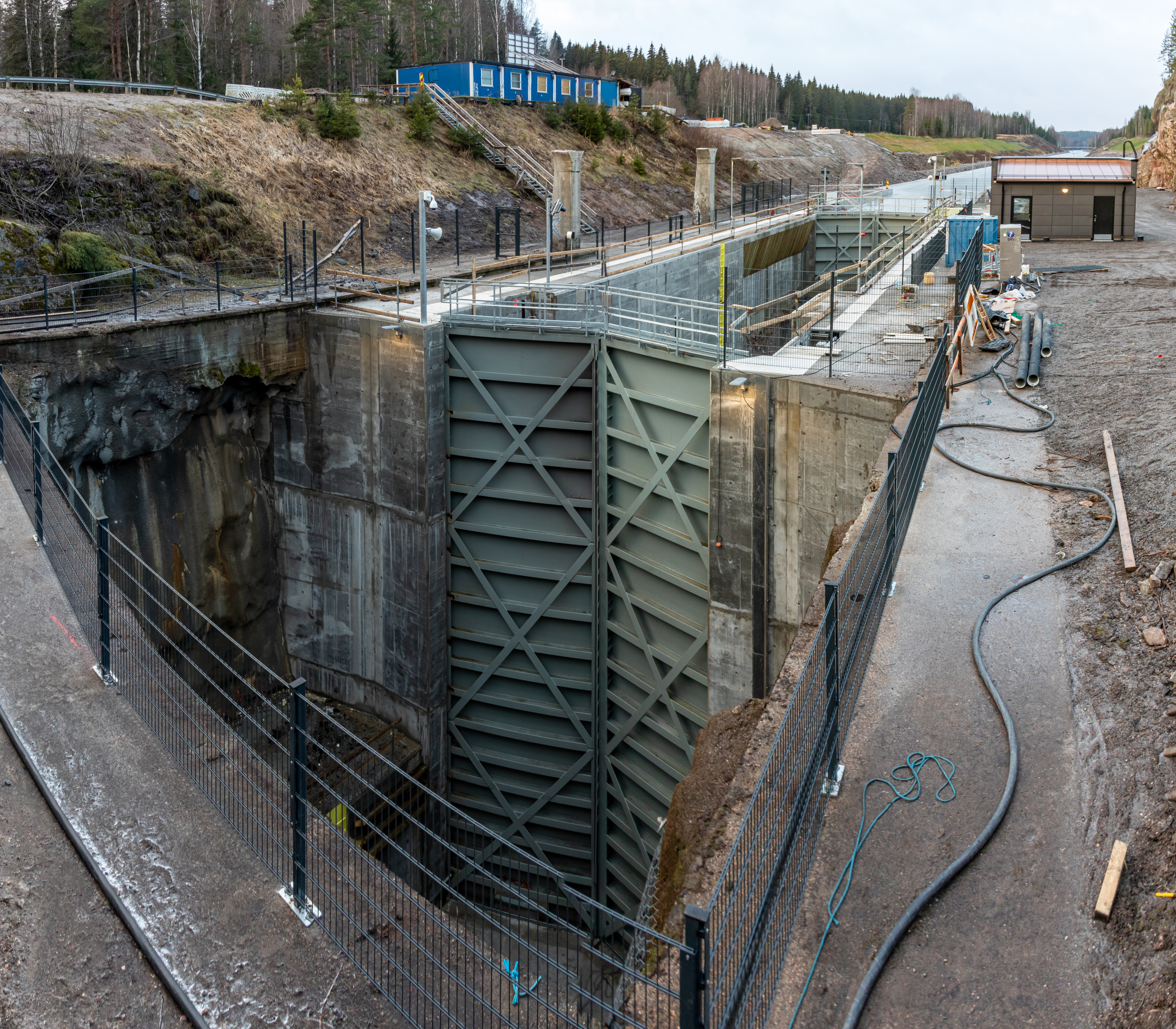 Nearly finished Kimola Canal in Kouvola, Finland.